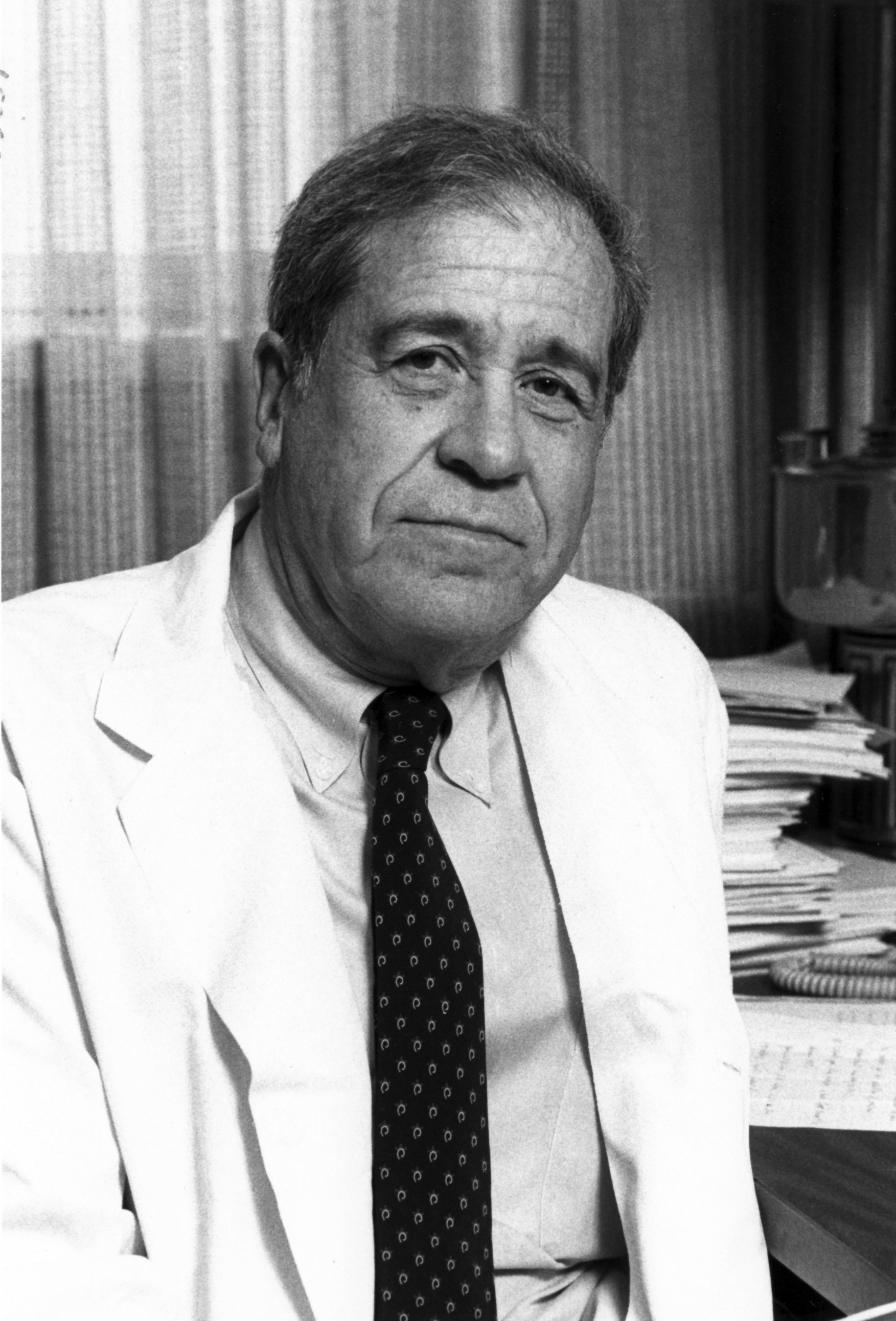 Title: Portrait: Bernard Fisher Description: Portrait of Bernard Fisher who was Chairman of the National Surgical Adjuvant Breast Project at the University of Pittsburgh, School of Medicine. Subjects (names): Fisher, Bernard Topics/Categories: Historical -- People National Cancer Institute -- People People -- Professional Type: B&W Source: Unknown Author: Unknown Date Created: Unknown Date Added: 2/26/2010 Reuse Restrictions: None - This image is in the public domain and can be freely reused. Please credit the source and/or author listed above.